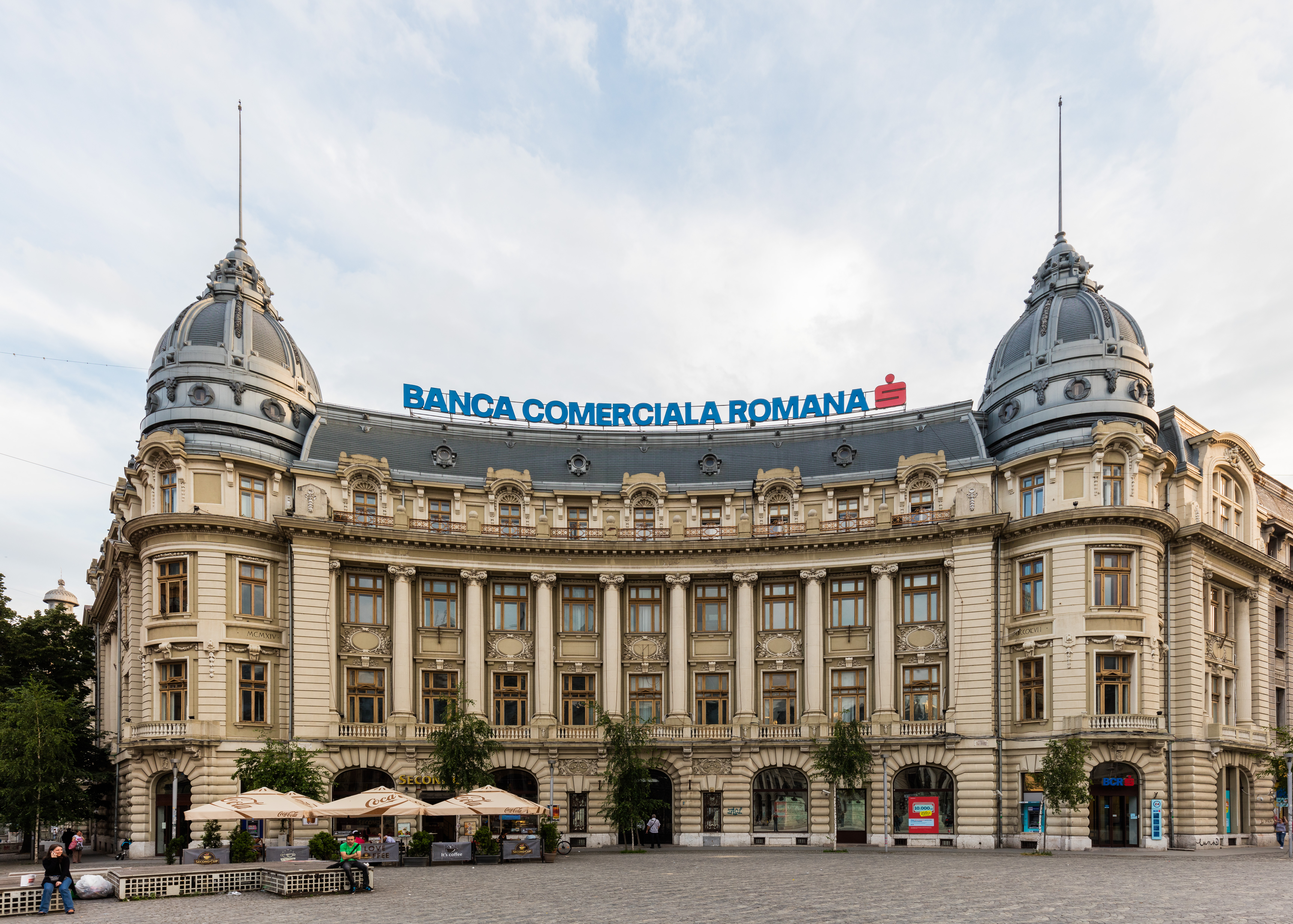 Headquarters of the Romanian Commerce Bank, Bucharest, Romania